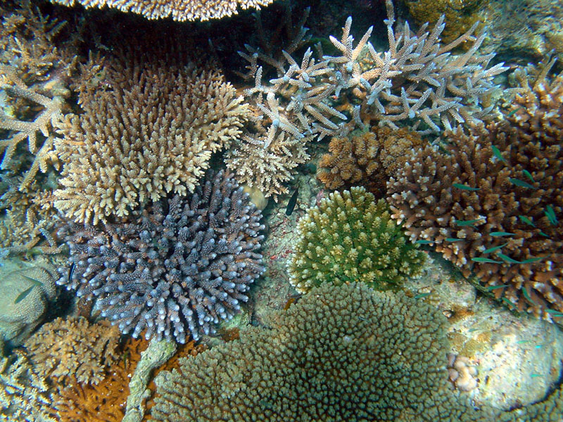 Reef of the Maldivian island of Kandholhudhoo showing healthy corals.